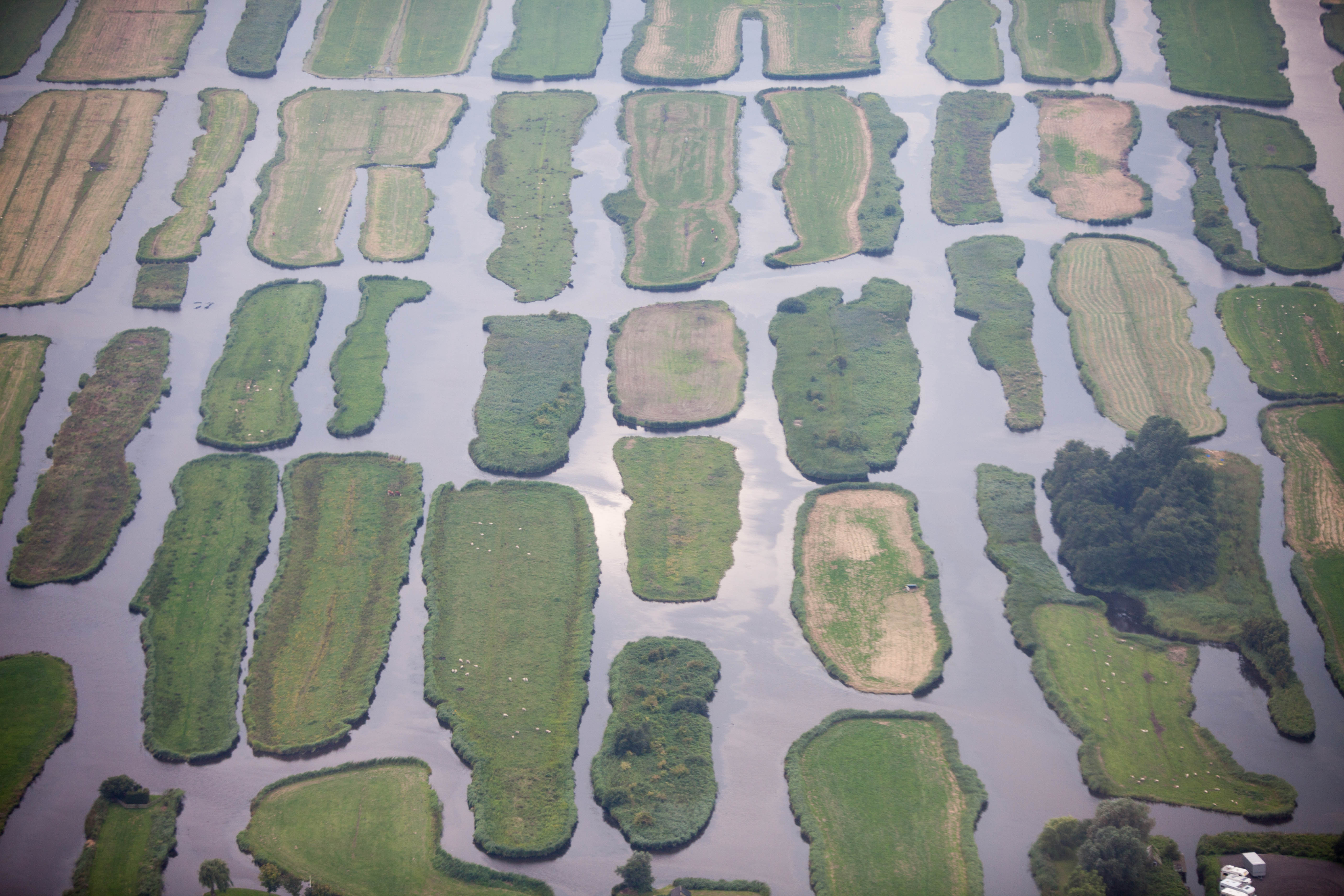 Looking west over a Dutch polder landscape in Oostzaan.